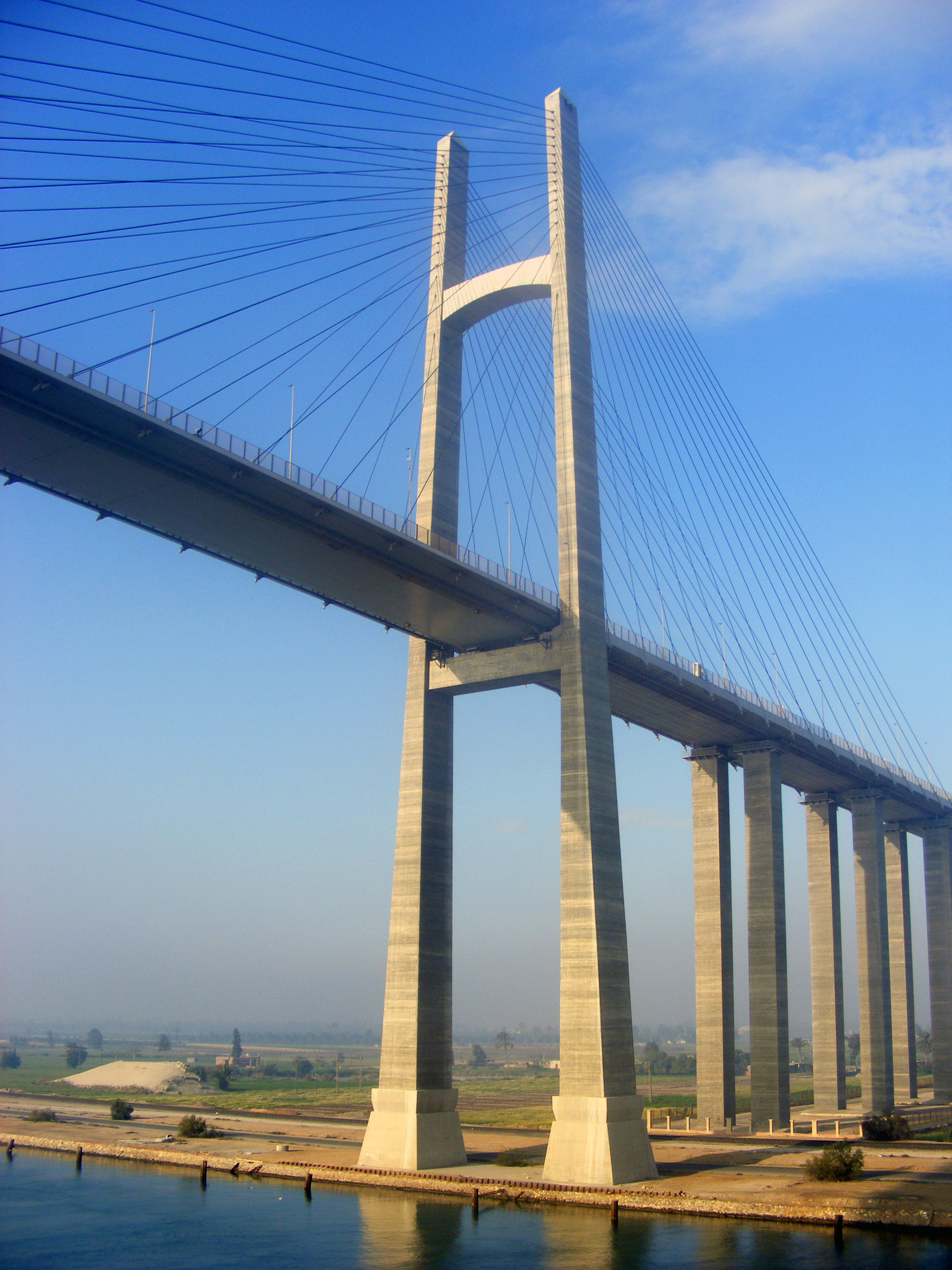 Suez Canal Bridge close up taken from the flight deck of USS Dwight D. Eisenhower during the 09 Persian Gulf deployment.